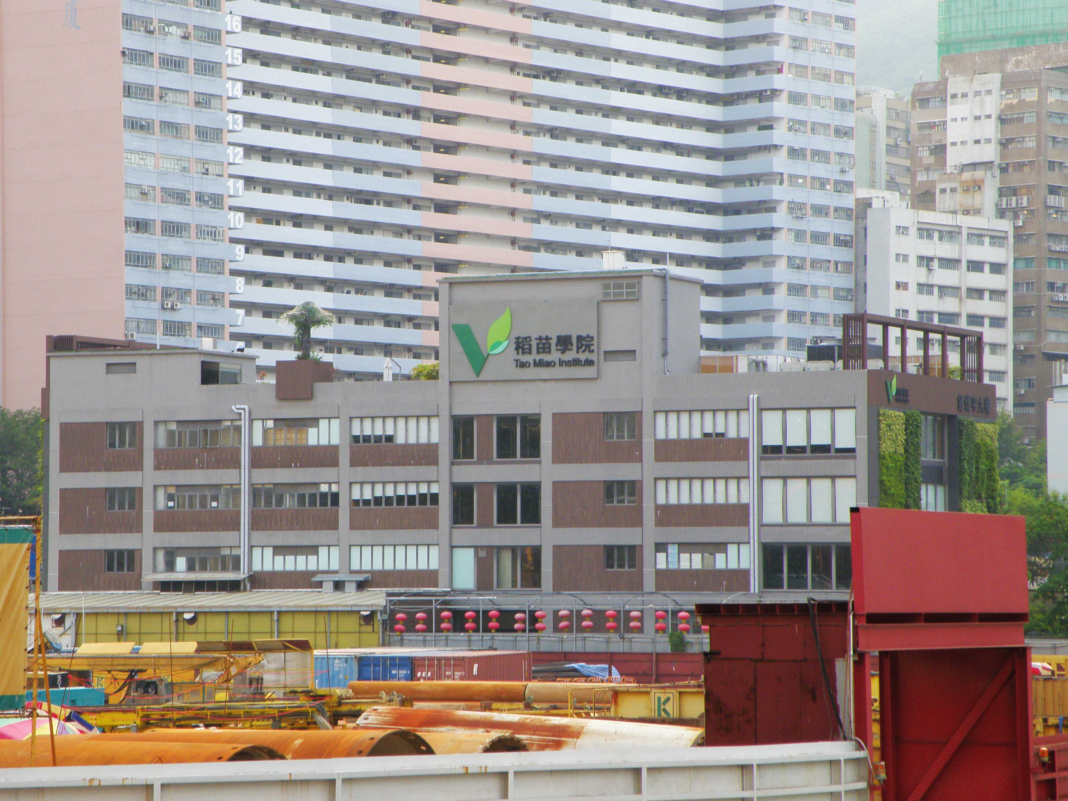 Chung Wai-ping Building in Fo Tan, Hong Kong. Tao Miao Institute